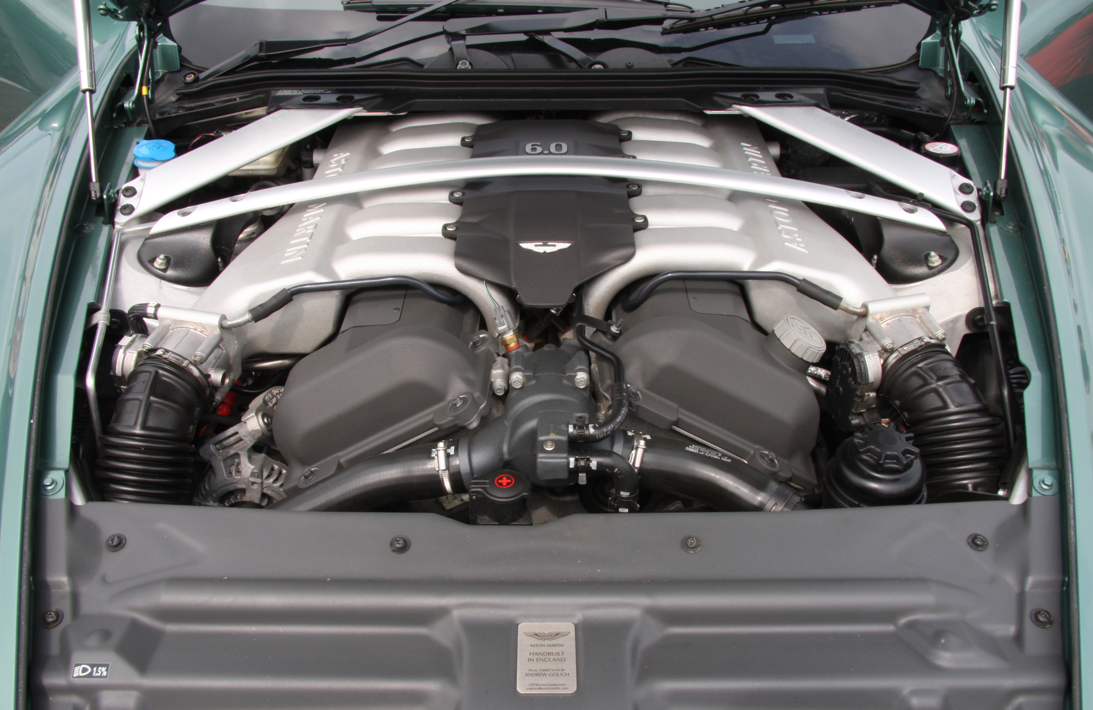 Aston Martin 6.0 Litre V12